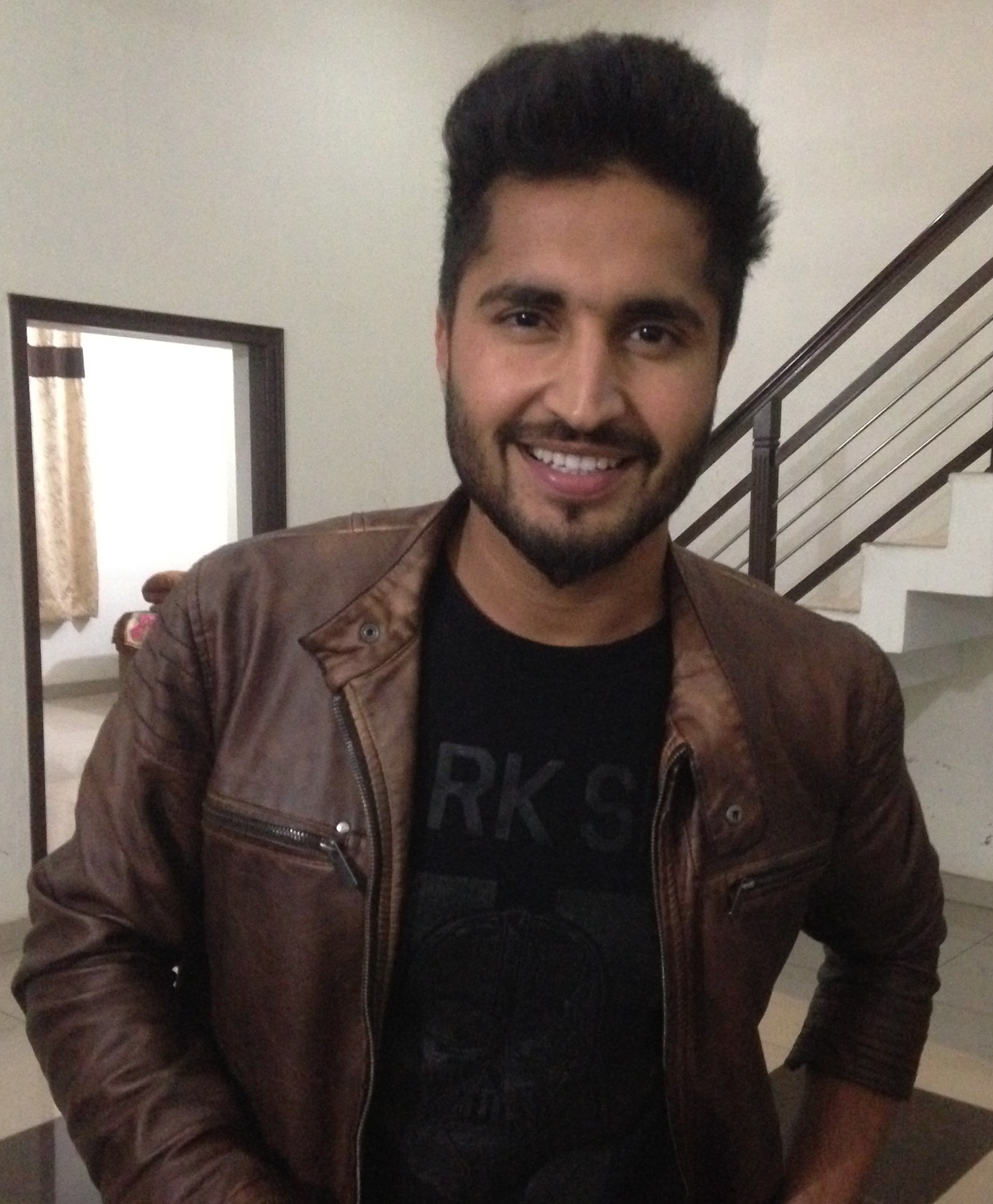 Punjabi Singer Jassi Gill